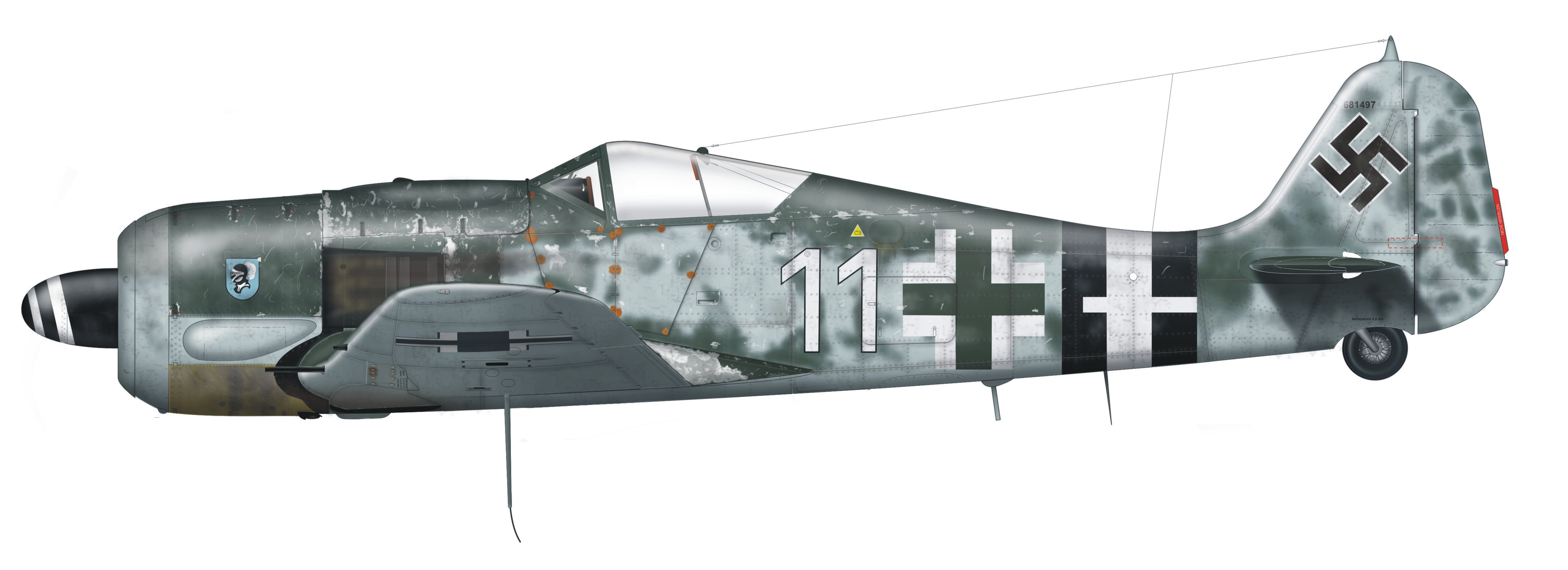 Focke Wulf Fw 190 A-8 of JG 4, flown Pvt. Wagner; the aircraft was downed by american anti-aircraft fire during operation "Bodenplatte". It was captured by american troops after making an emergency landing. The ETC 501 was removed and the engine repaired for ground trials.